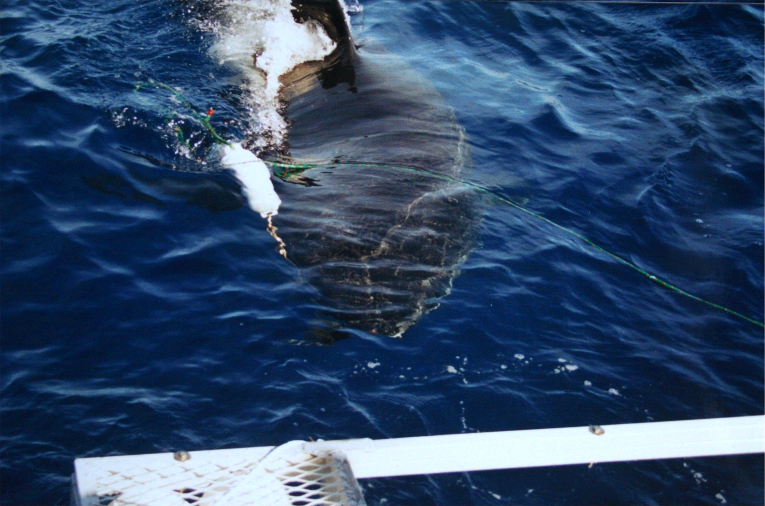 A great white shark at Isla Guadalupe, Mexico is aproaching the cage with the divers. In the next moment after the picture was tahen the shark got his head inside an oppening of the cage. Neither people inside the cage nor shark were hurt. The picture is a digital copy of my old film picture.